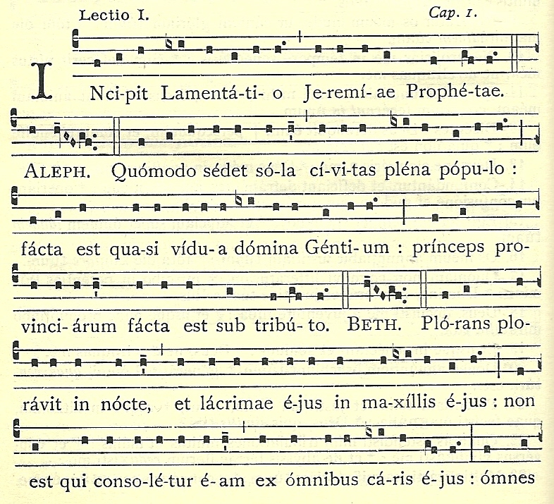 Lamentationes Jeremiae I - Matutin of Holy Thursday, I. Nocturn, Lectio I. Origin: Liber Usualis Missae et Defuncti, Parisiis, Tornaci, Romae 1954, p. 626